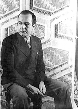 Portrait of Samuel Barber